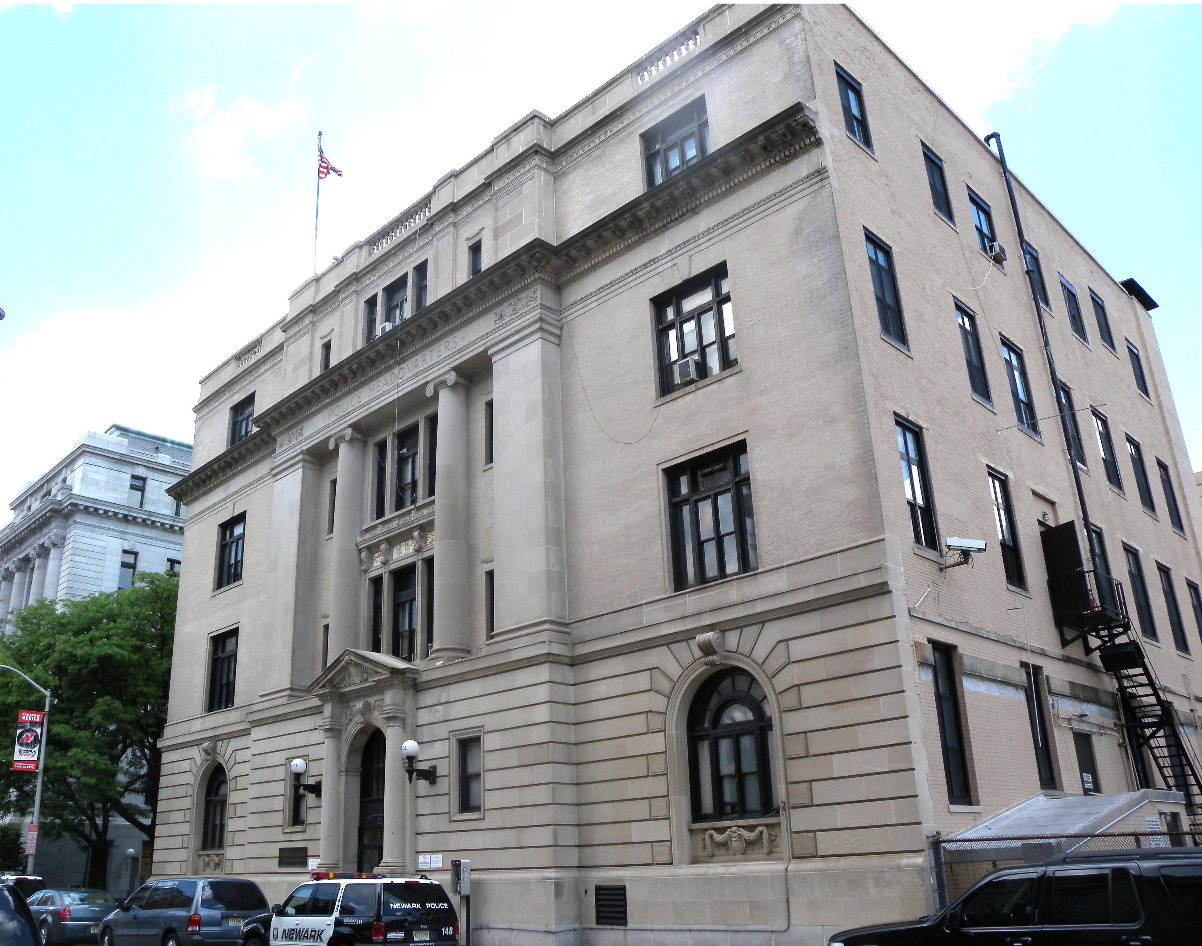 Looking northwest at Newark Police Department (New Jersey) headquarters on a sunny midday. See also File:NPD Emer 472 Orange St jeh.JPG